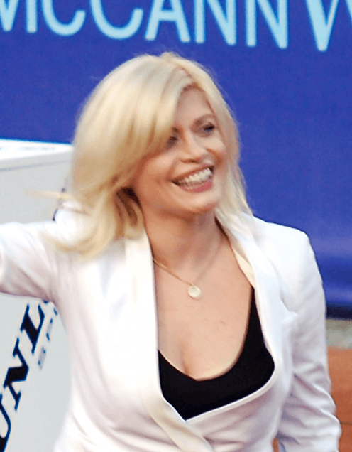 Close-up of Romanian pop singer Loredana Groza at Andrei Pavel's retirement match, on the Progresul Arena. Cropped and stabilized from File:RO B Pavel retirement Loredana.jpg.